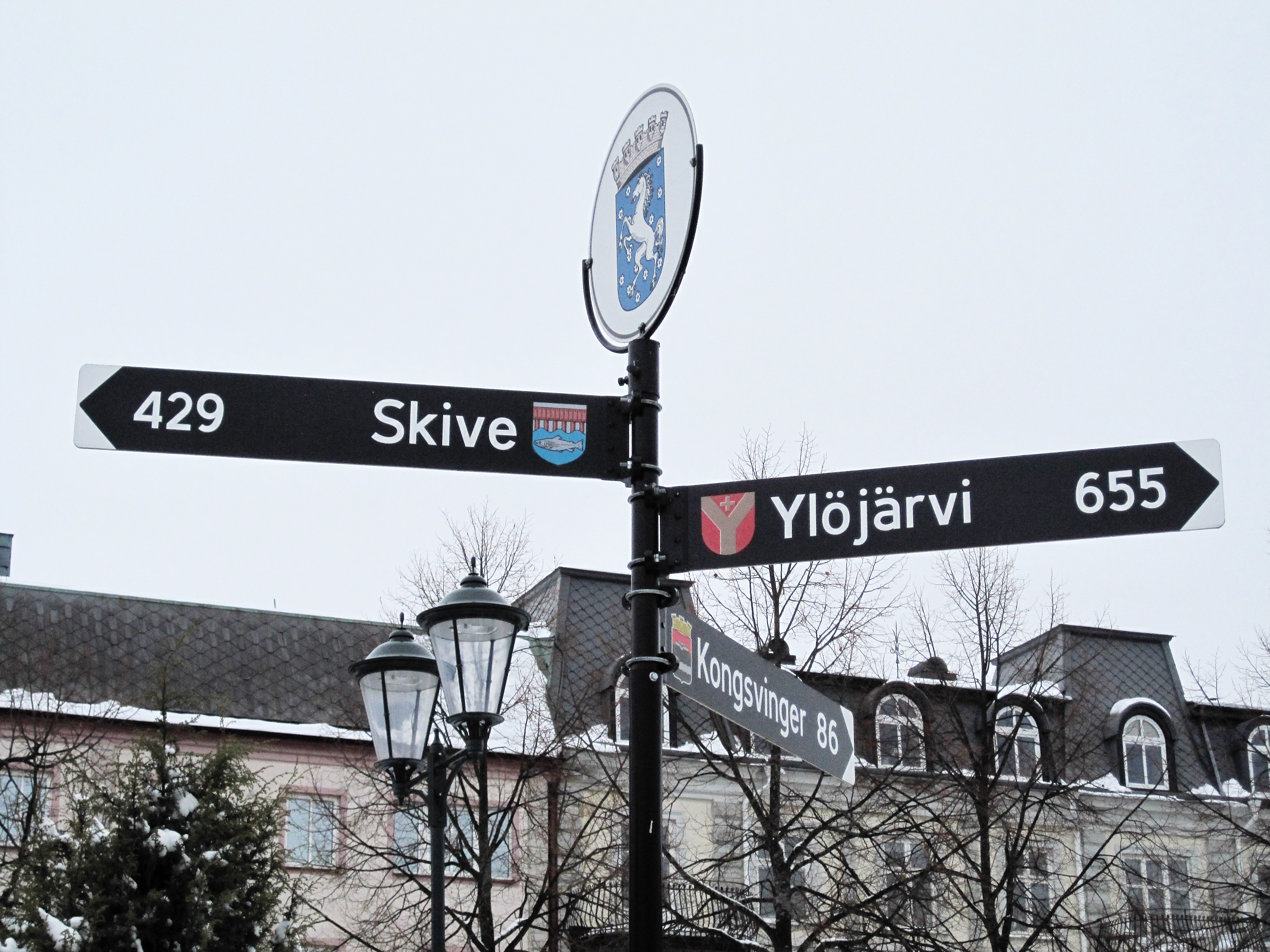 Sign indicating twin towns. Arvika, Sweden.